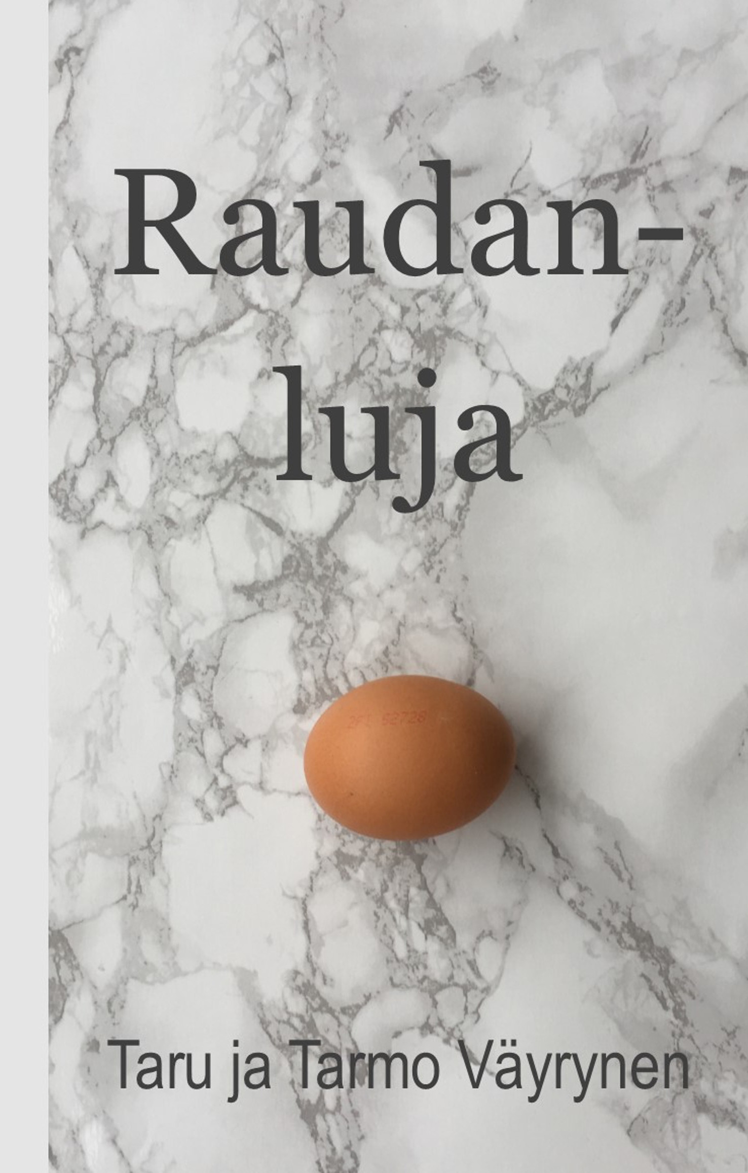 Raudanluja